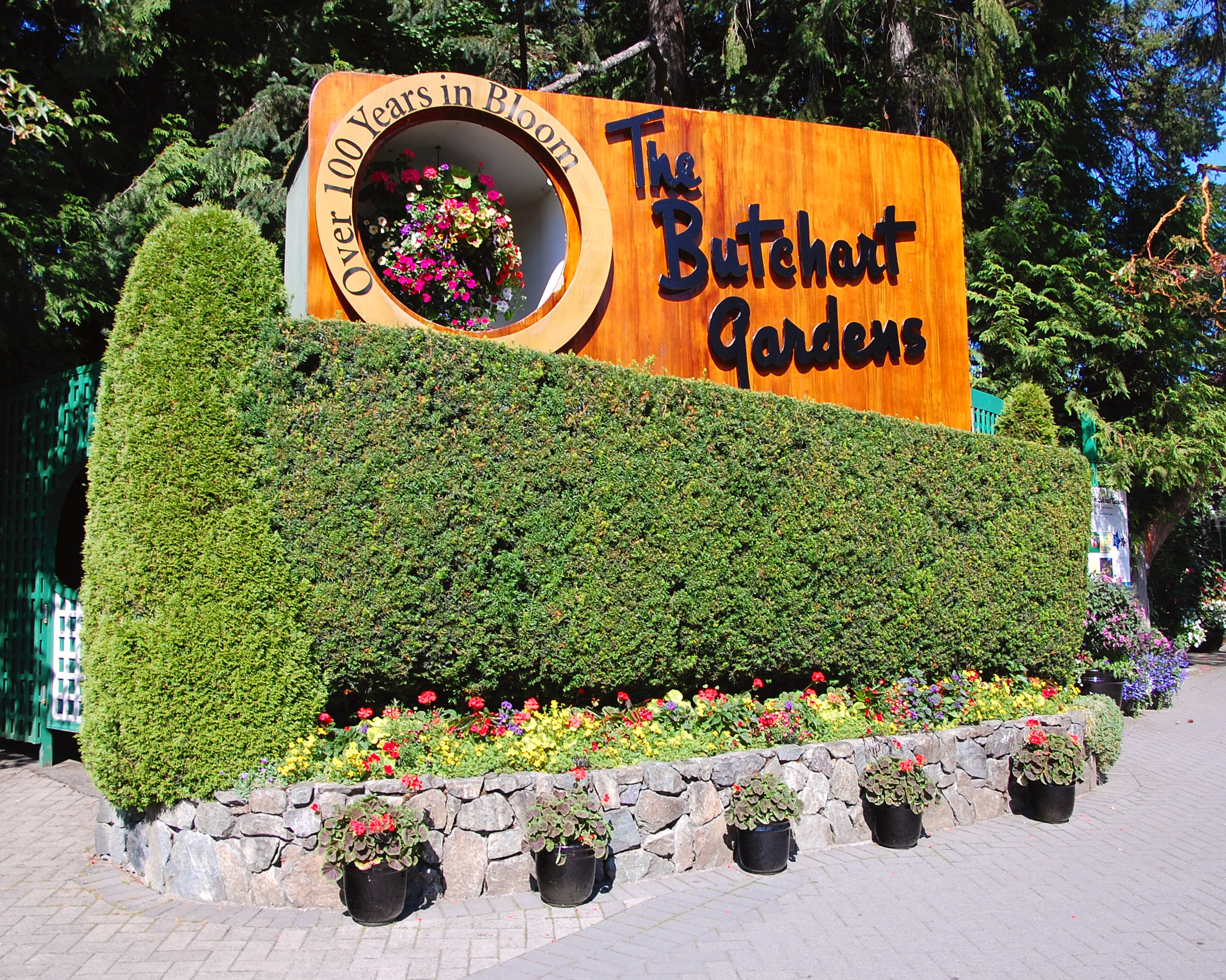 Sign at the entrance to the Butchart Gardens in British Columbia, Canada